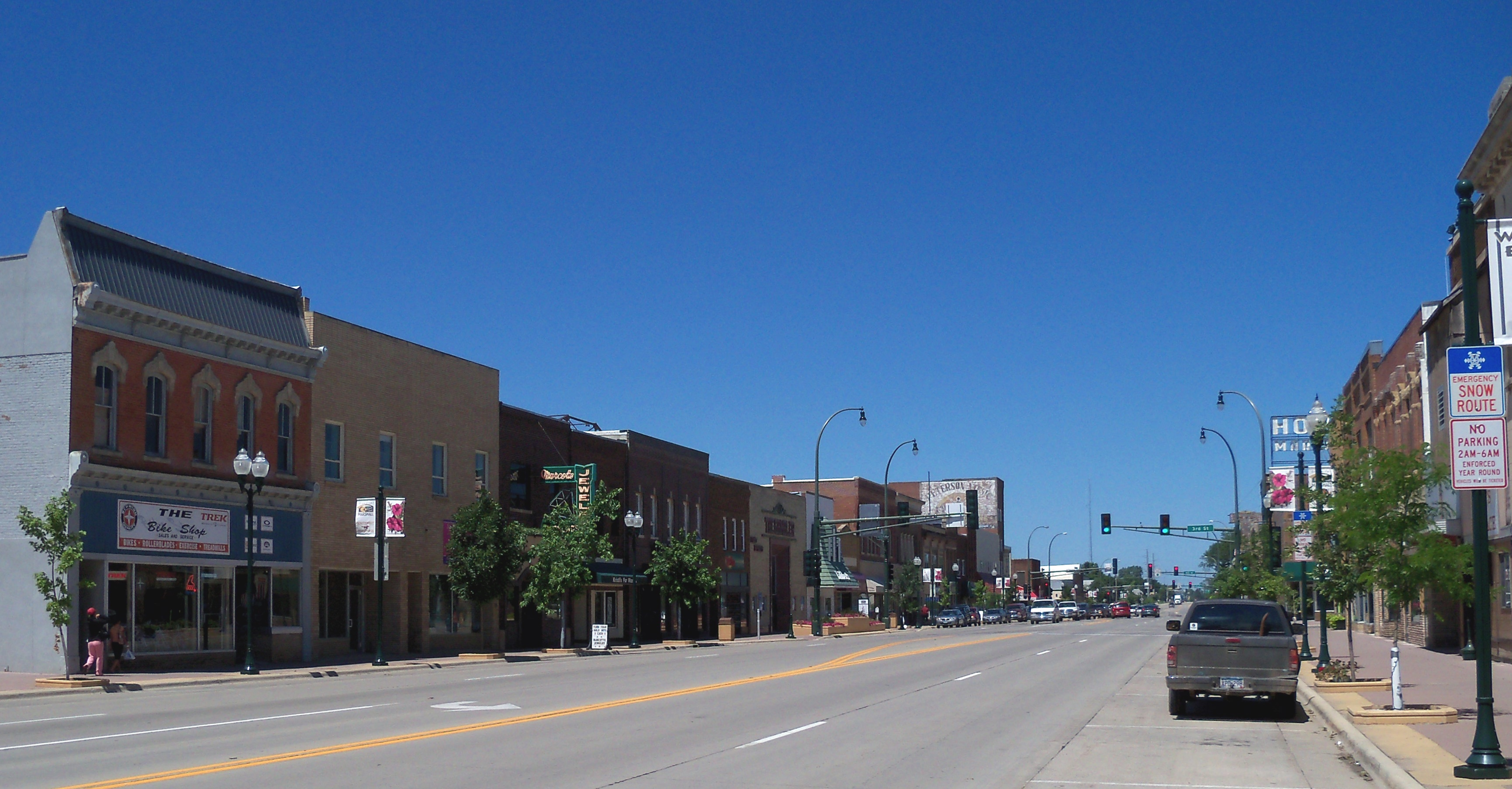 Main Street in Marshall, Minnesota, USA.